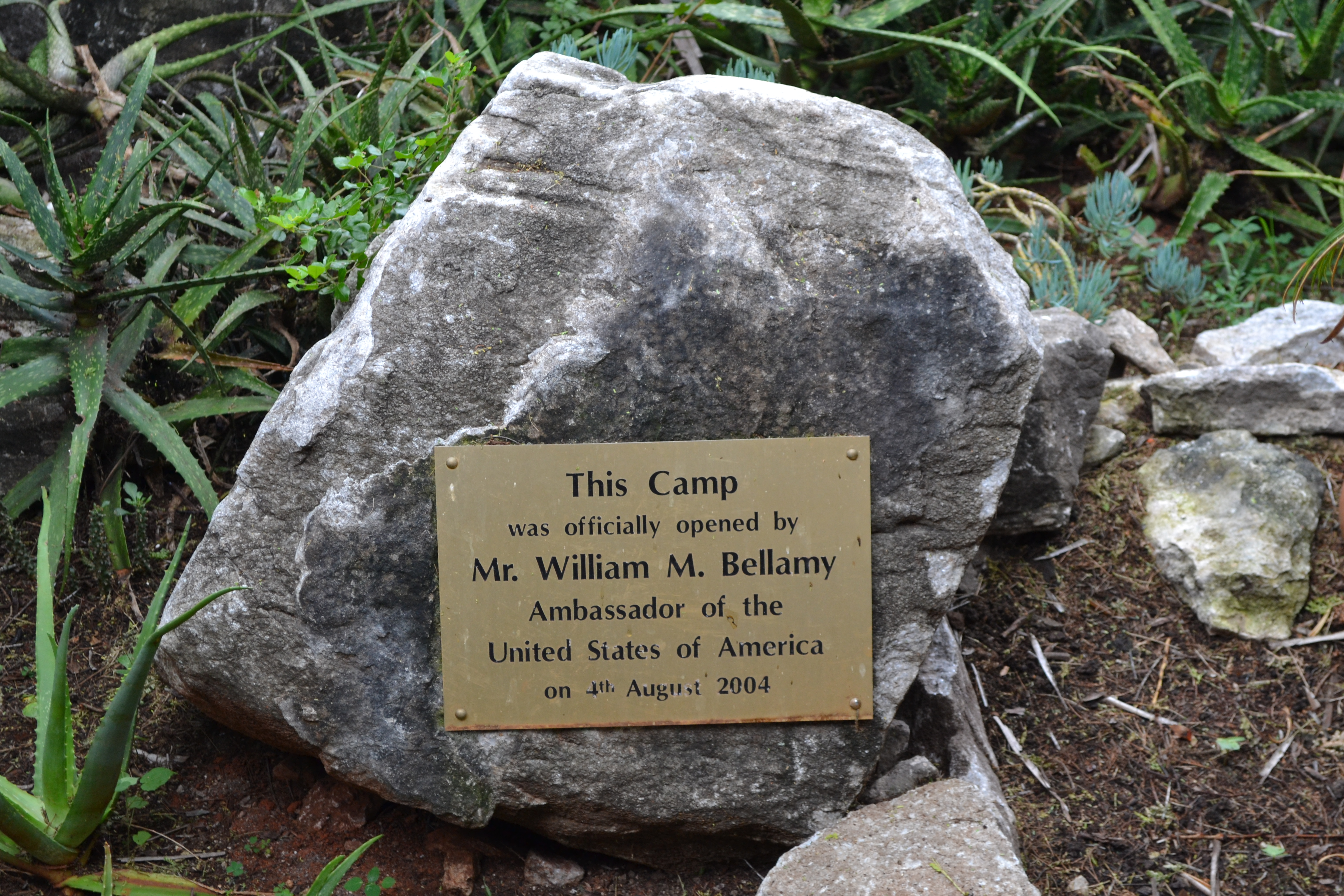 Plaque for the opening of Lions Bluff Lodge, LUMO Community Wildlife Sanctuary, Kenya, by William M. Bellamy, ambassador of the United States to Kenya, on 4 August 2004.